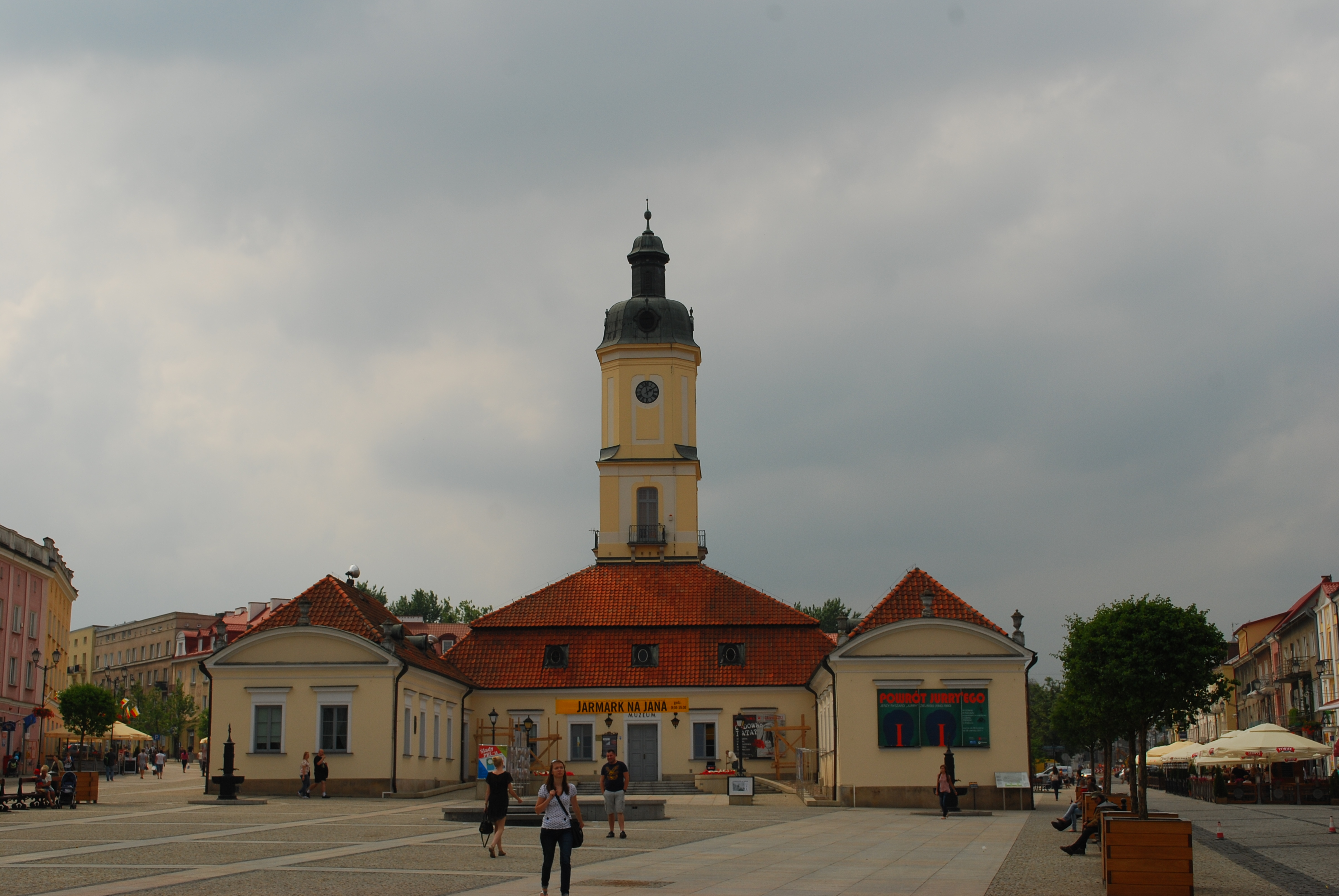 City hall in Białystok, Poland